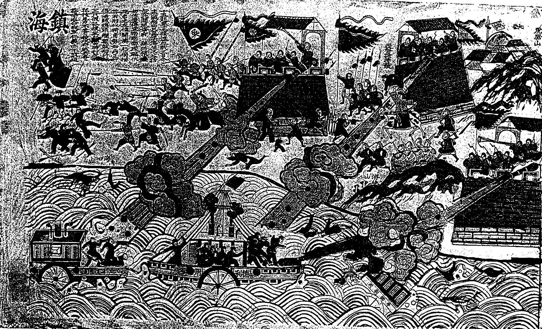 Chinese image of Battle of Zhenhai, 1 March 1885